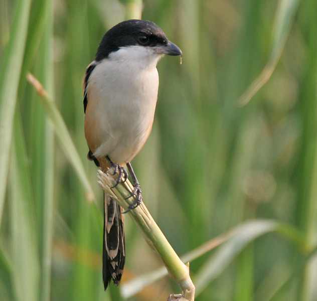 Long-tailed Shrike Lanius schach in Kolkata, West Bengal, India.